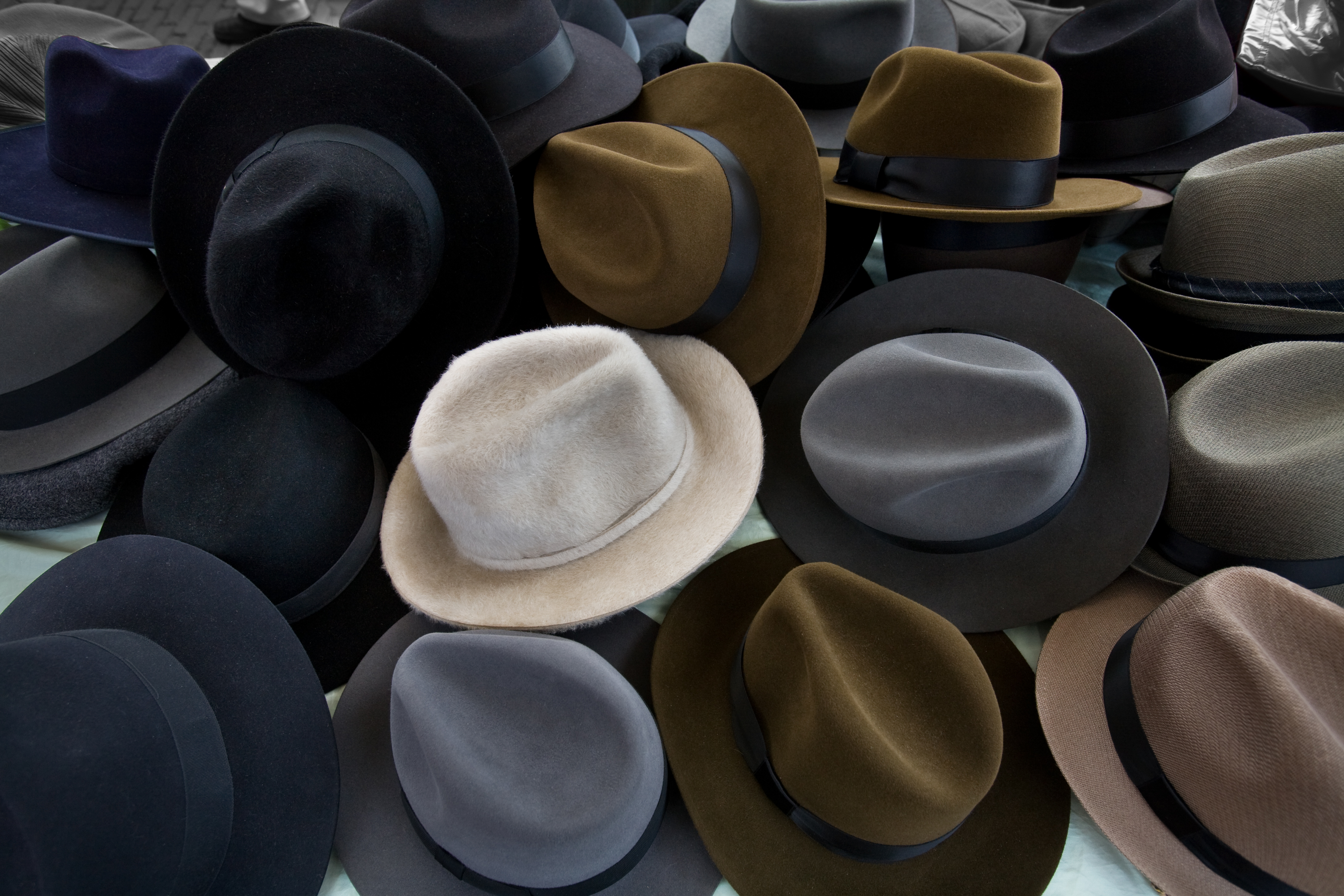 Hat stall in a sunday fair. Amsterdam, The Netherlands